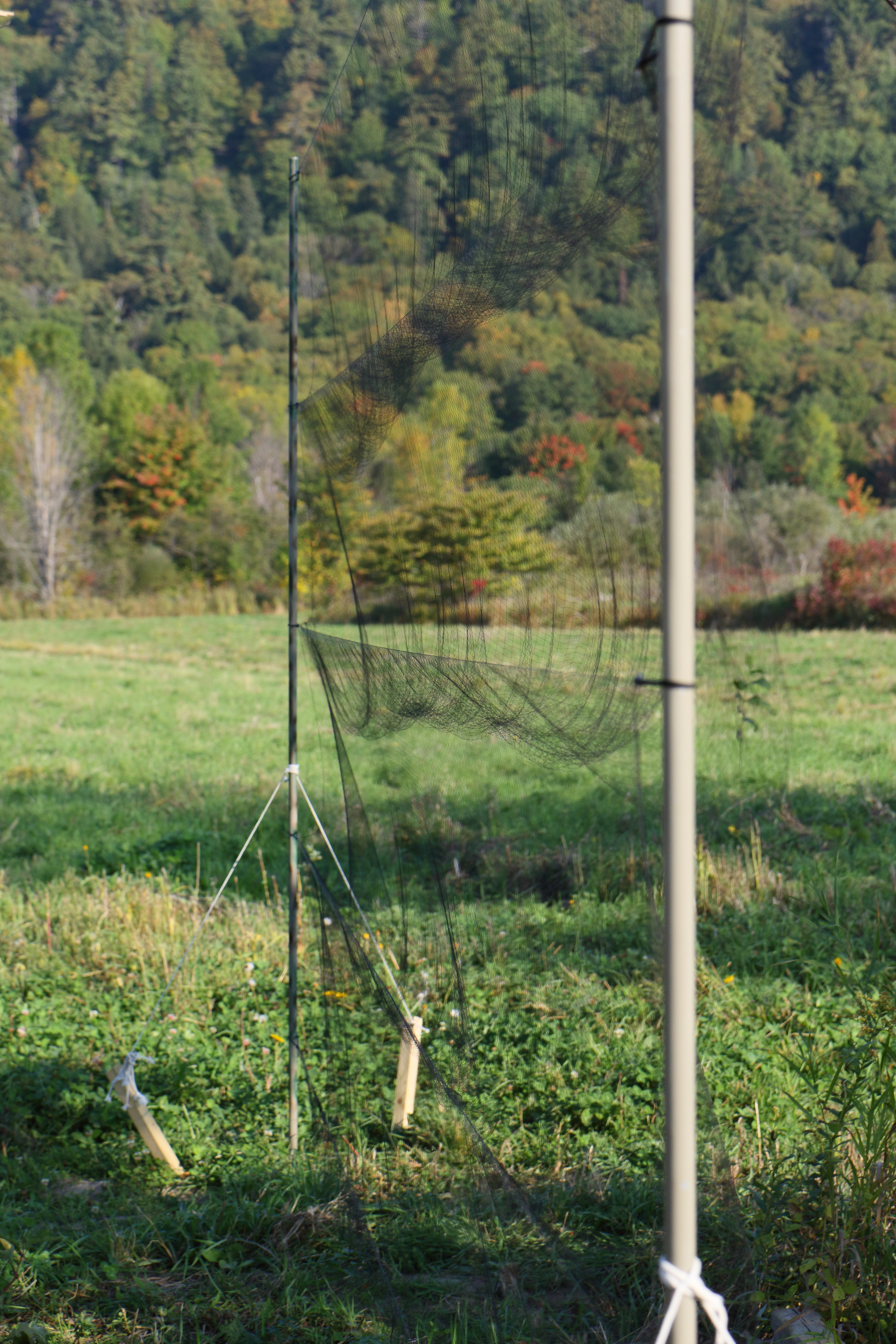 Mist net, Cap Tourmente National Wildlife Area, Quebec, Canada